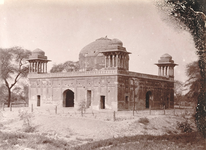 Dai Anga's Tomb (1884)